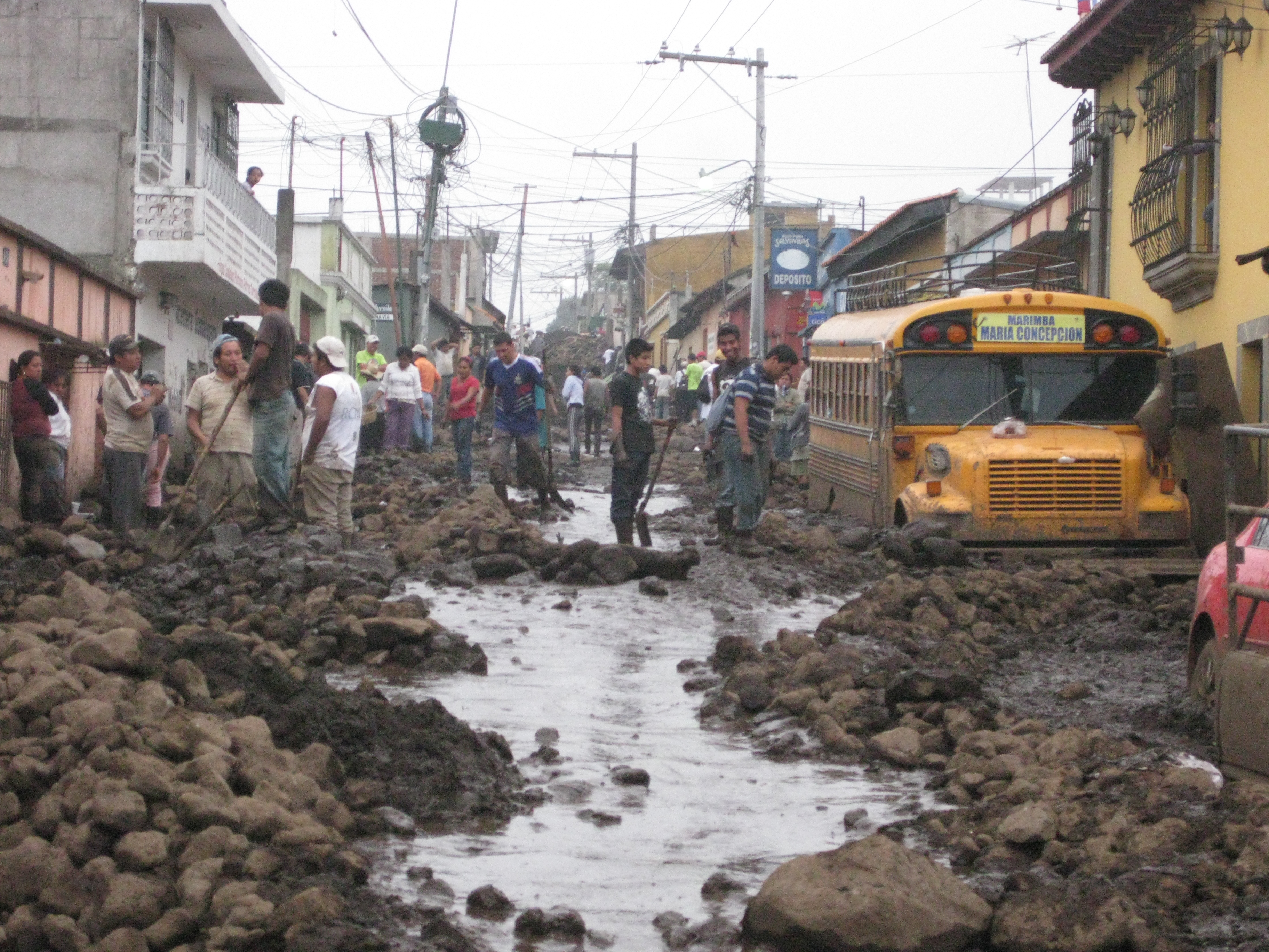 Aftermath of the mud flow coming down the slopes of the Agua Volcano into San Miguel Escobar, Ciudad Vieja, Guatemala. 31 May 2010, two days after the mud flow caused by Tropical Storm Agatha.